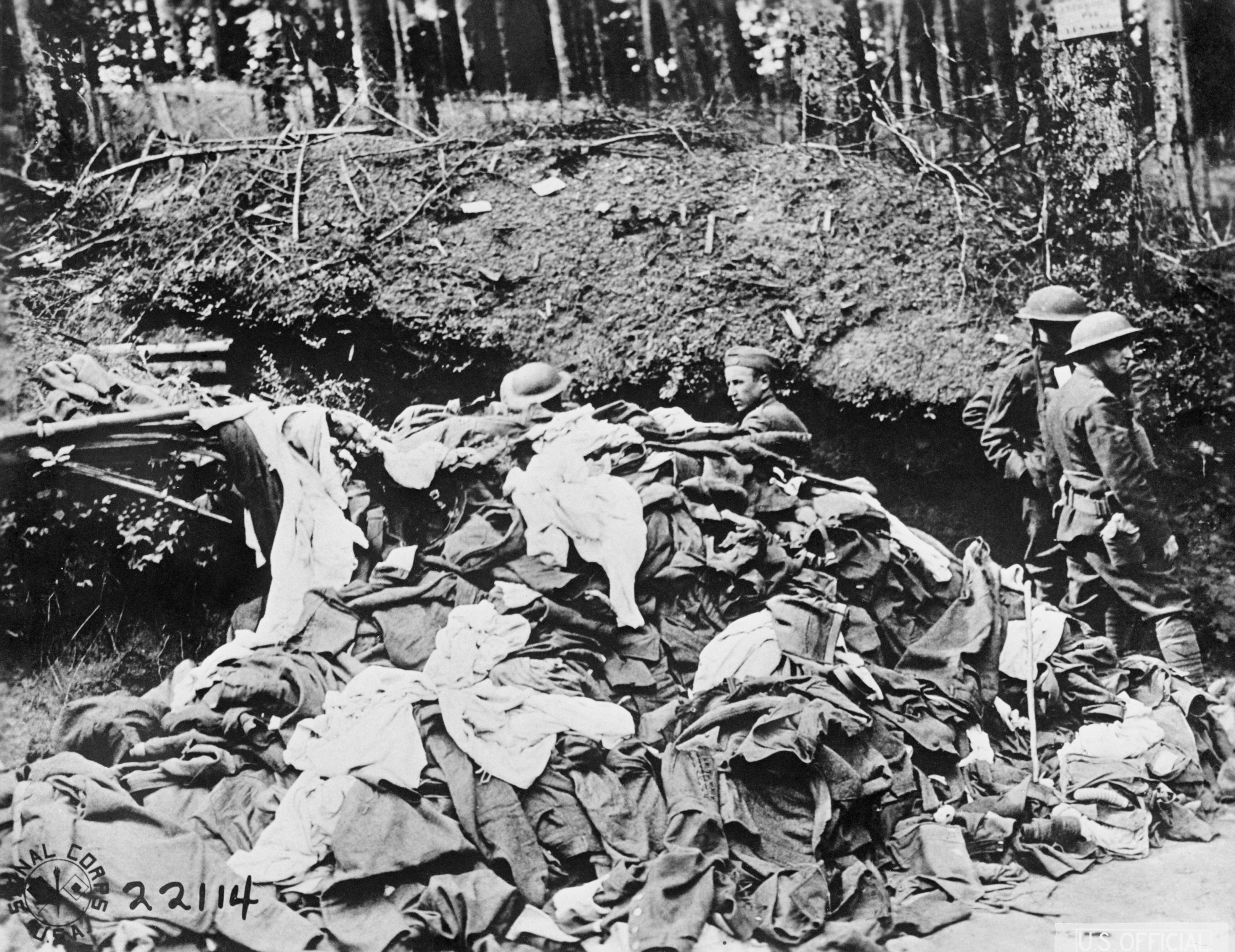 The US Army on the Western Front 1917-1918 Clothing removed from men affected by mustard gas, Frapelle.